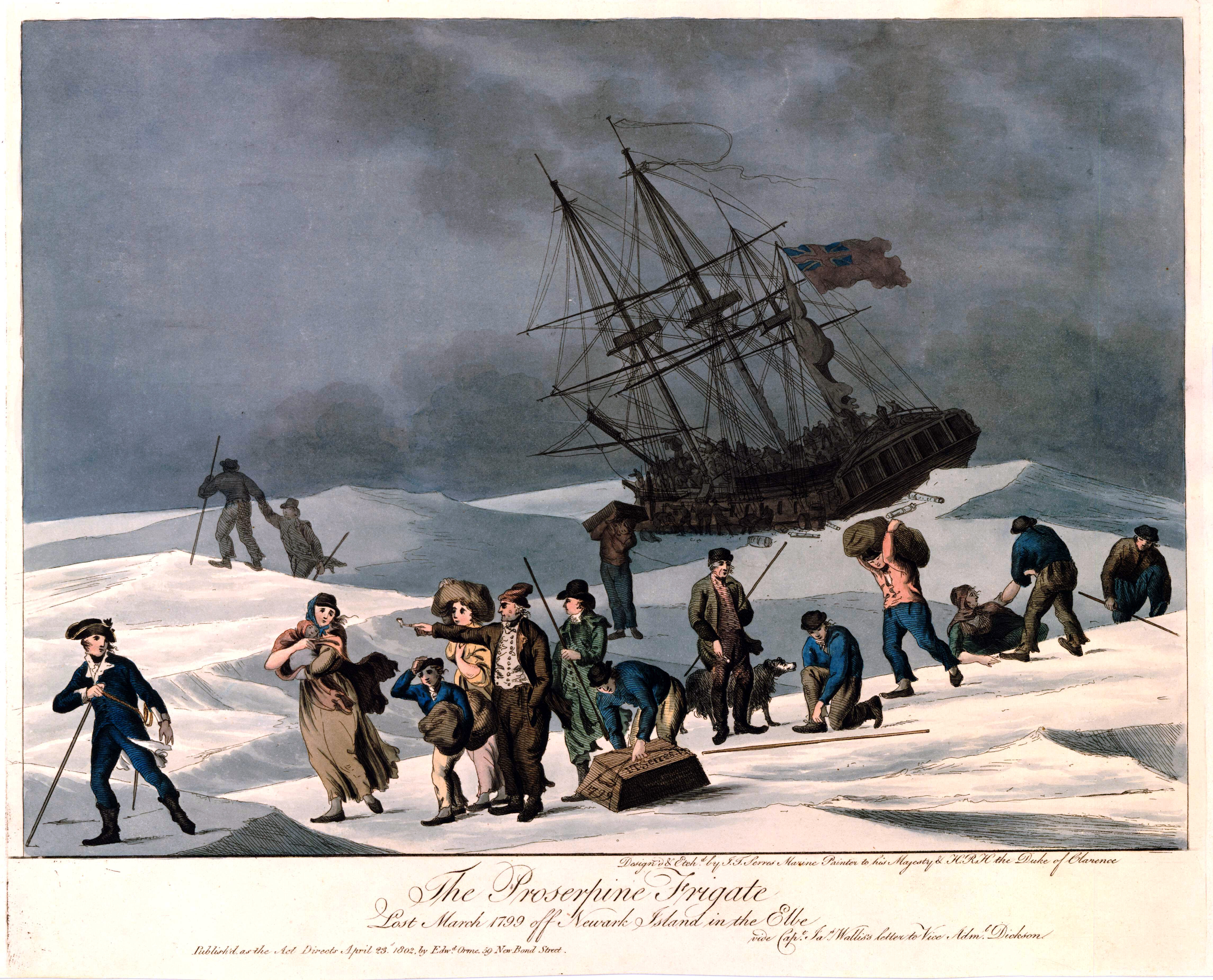 Survivors of a shipwreck trudging across the ice into the left foreground, including a man who bends to lift a box labelled 'I T Serres / 1799', another helping a woman over a ledge to right, with the ship leaning on one side agains the ice in the background. 1802 Hand-coloured etching and aquatint